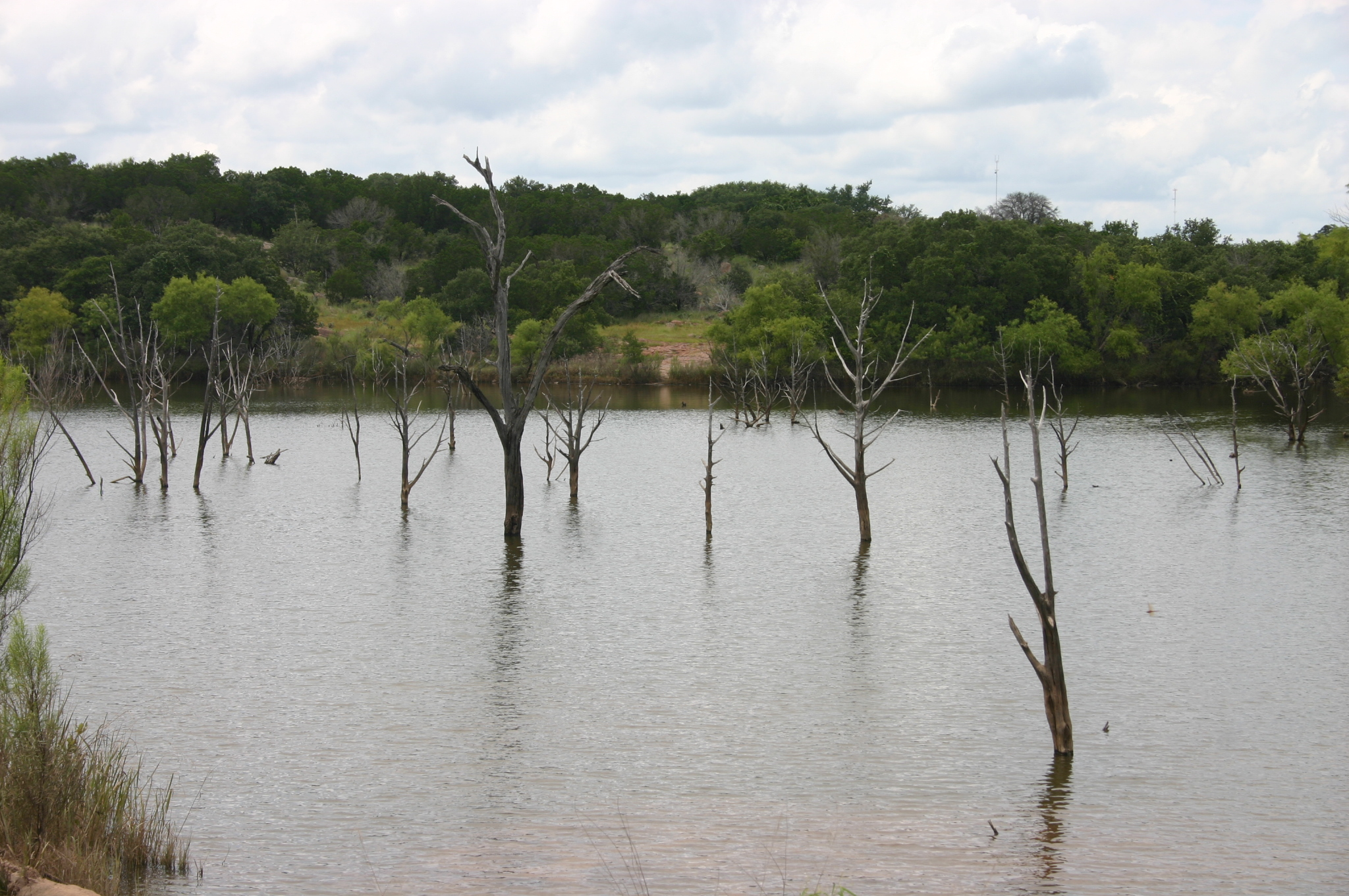 When the Colorado River, TX is dammed to form Inks Lake, a forest was immersed in water and thus killed, resulting in a ghost forest.